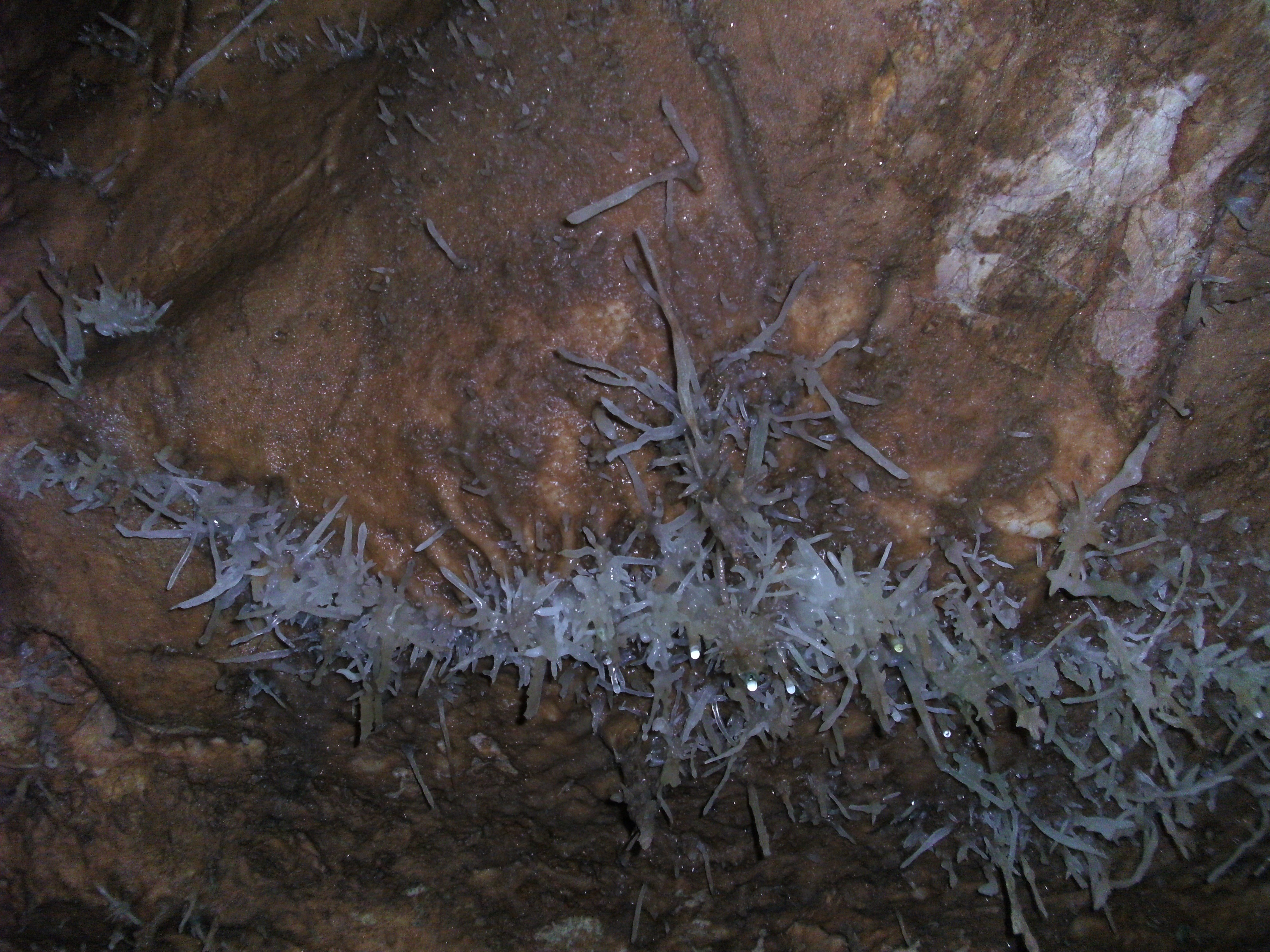 Marble Cave which is located in a village of Gadime municipality of Lipjan,about 20km south of capital Pristina.